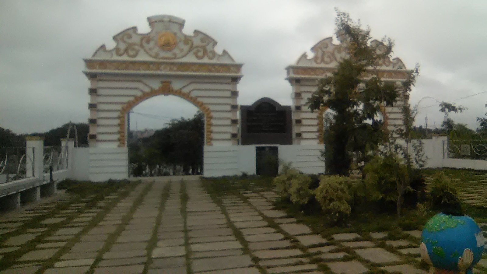 ராமநாயக்கன் ஏரி நடையாதையின் நூழைவு வாயில்